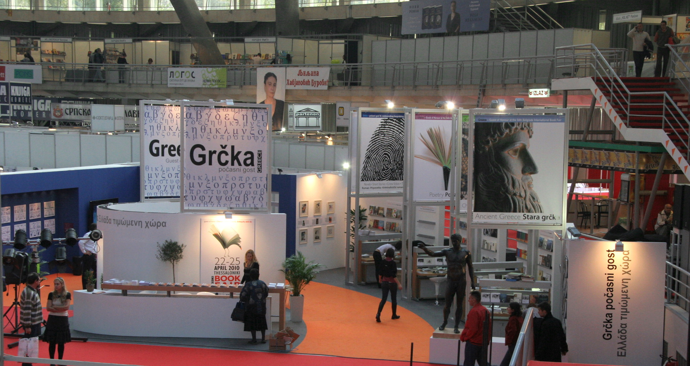 Greece, special guest country of the Belgrade Book Fair 2009